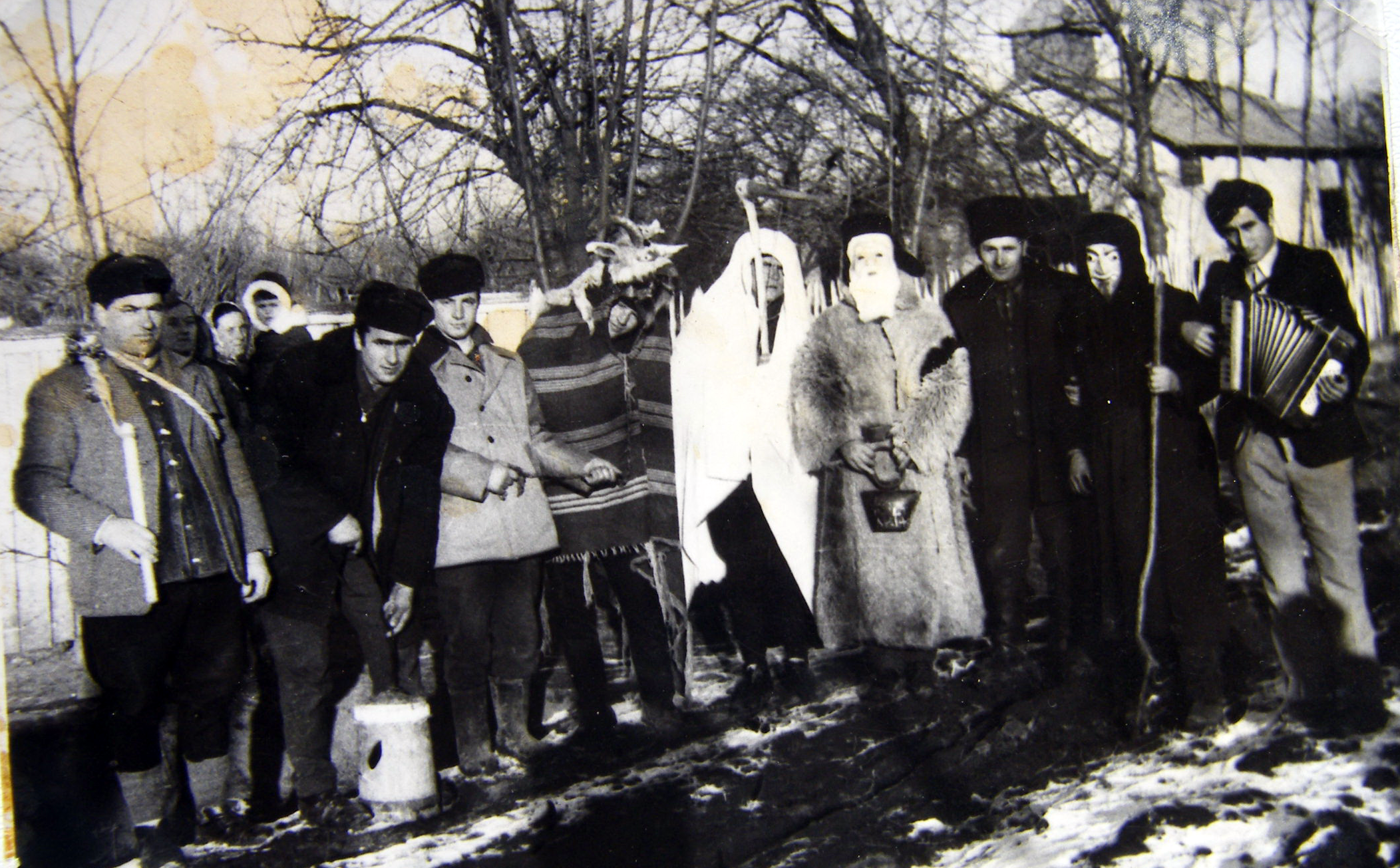 A group of young men team going carol singing with Plugușorul, in the last day of the year, from Bordei Verde commune, Brăila County, România, 1970.